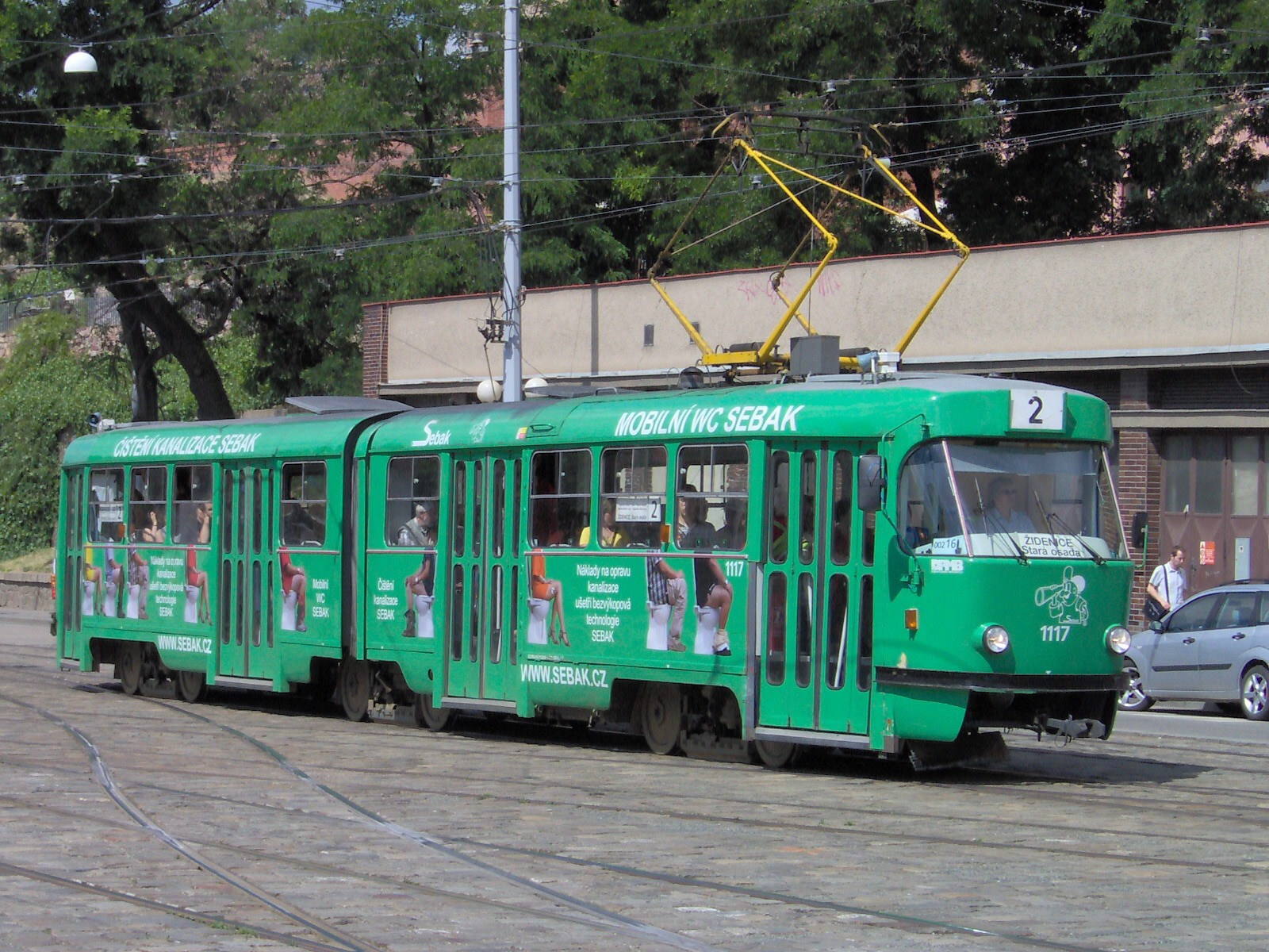 Tatra K2 tram in Brno, Czech Republic